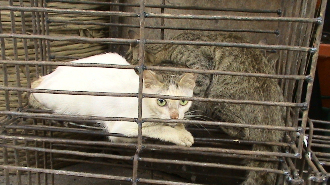 Cats before slaughter for cat meat. East Asian market.